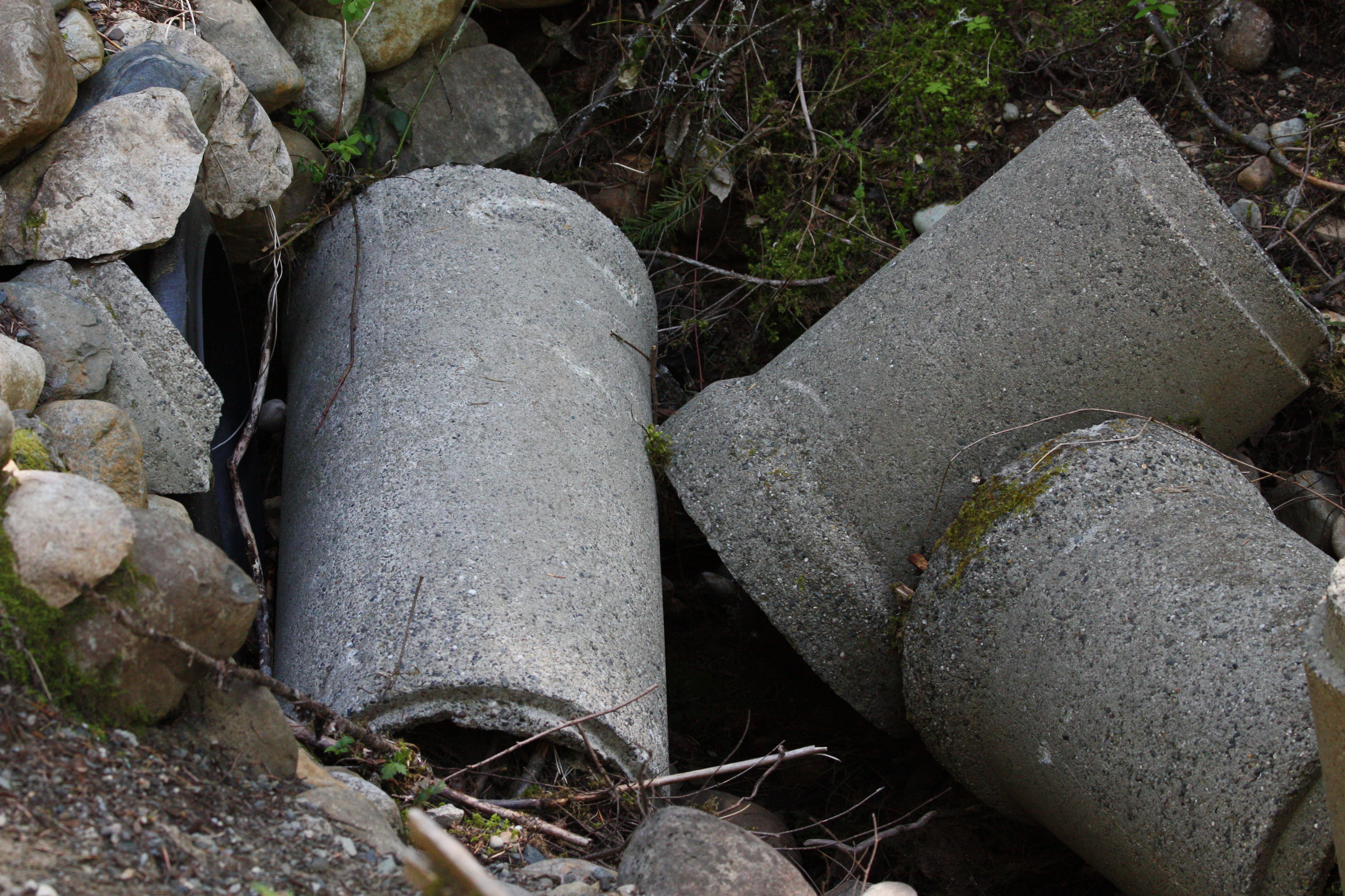 Culverts (concrete), used for drainage under roads